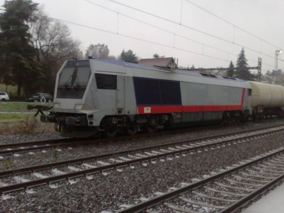 Voith Maxima